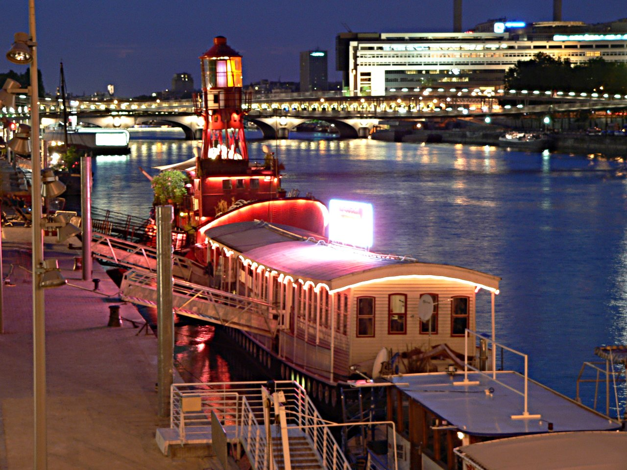 Paris: the river Seine, with (foreground) the Batofar and (background) the Ministry of Finances